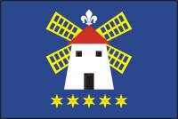 Official flag of the village of Kunkovice, Czech republic.